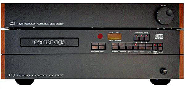 Cambridge Audio cd1